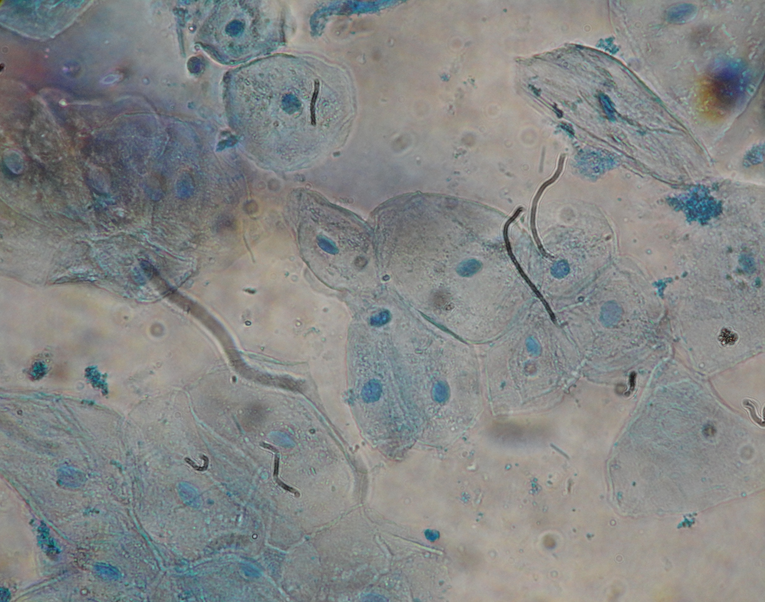 Epithelial cells from oral mucosa, stained with methylene blue dye. Microscopic view 40X.